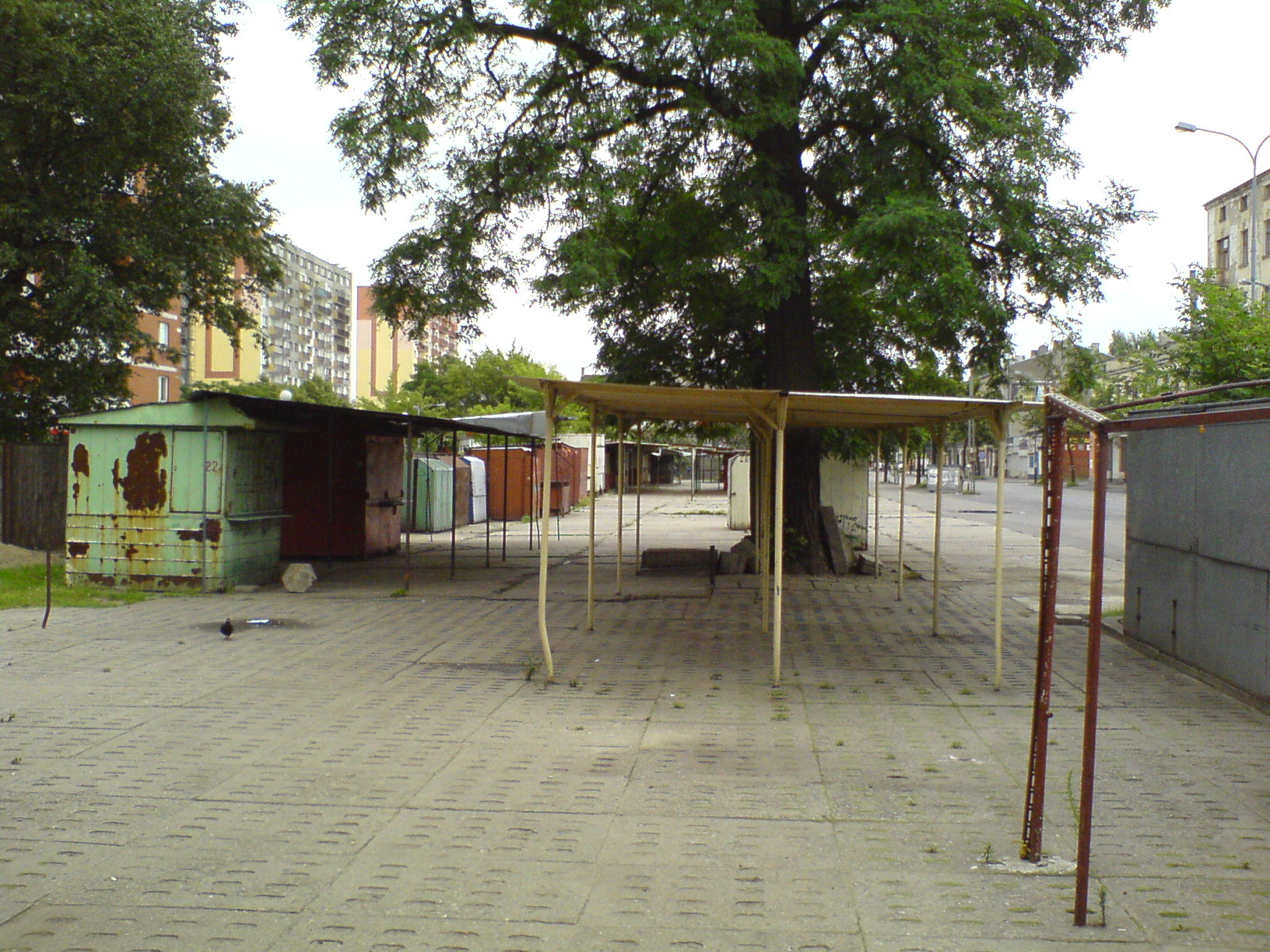 Red Market in Lodz (2007)